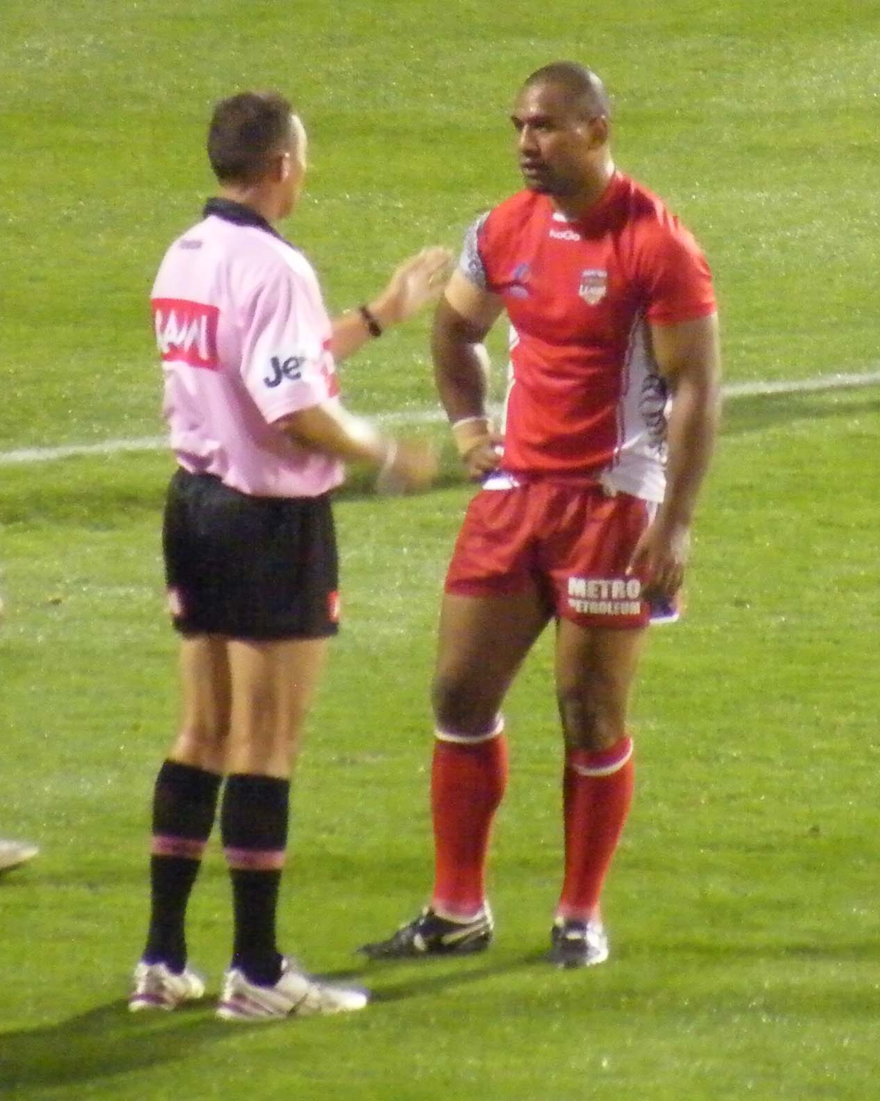 Tonga captain Lopini Paea with referee Shayne Hayne. RLWC - Tonga v Samoa, Penrith 2008.